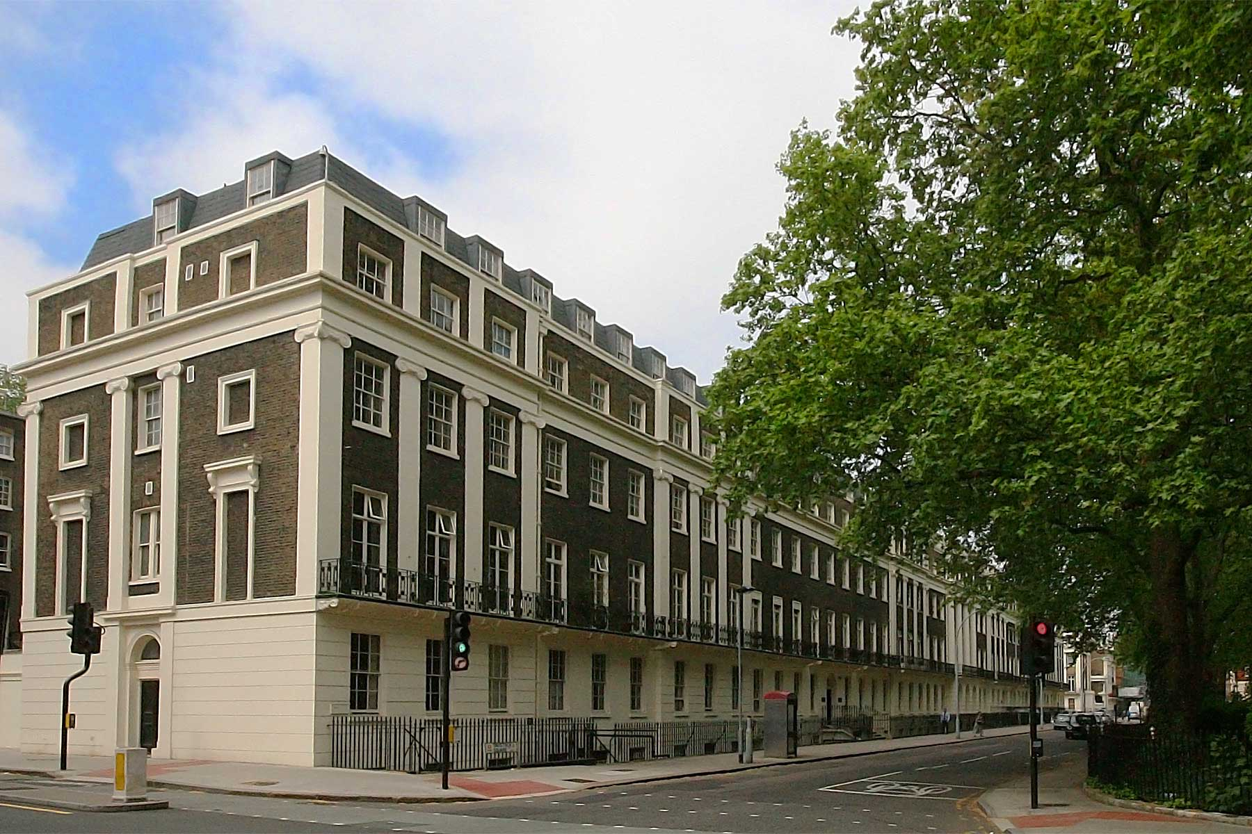 Photography by A. Clark